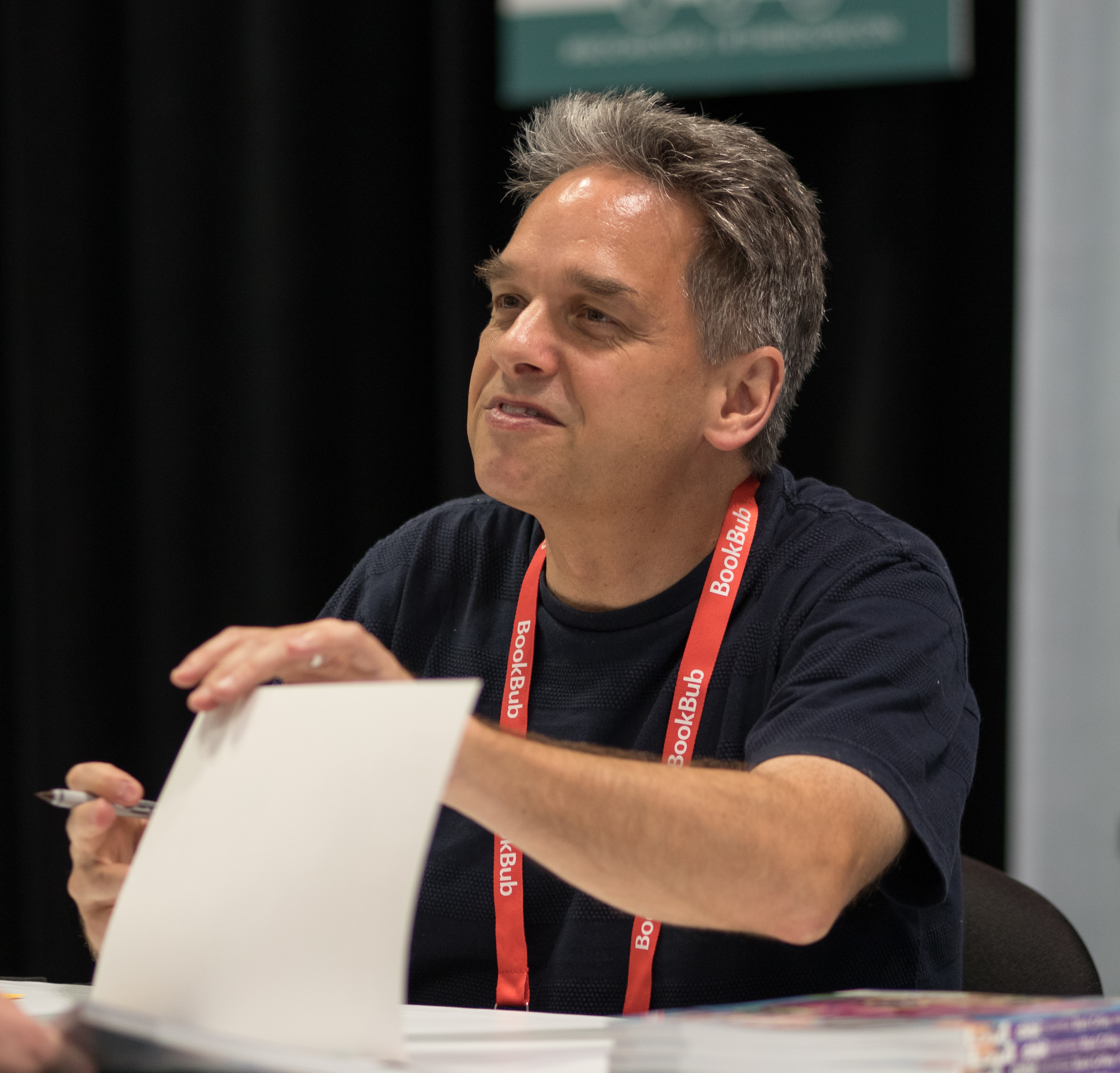 Mark Crilley BookExpo America 2018 at the Javits Convention Center in New York City.